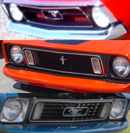 1973 Ford Mustang convertible